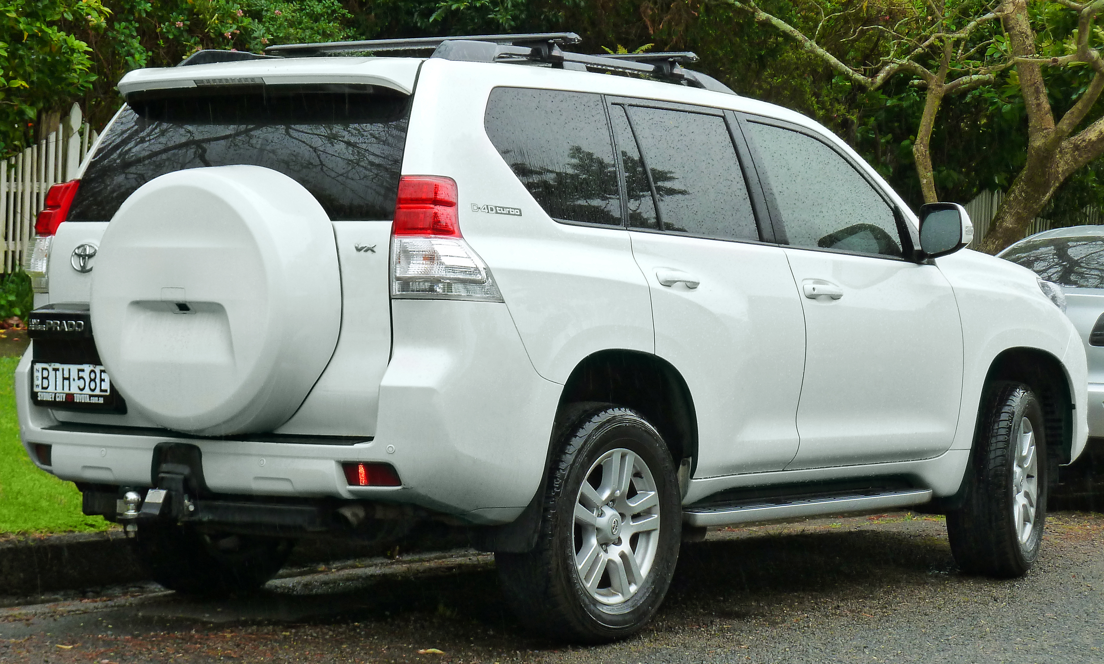 2009–2011 Toyota Land Cruiser Prado (KDJ150R) VX 5-door wagon. Photographed in Roseville, New South Wales, Australia.